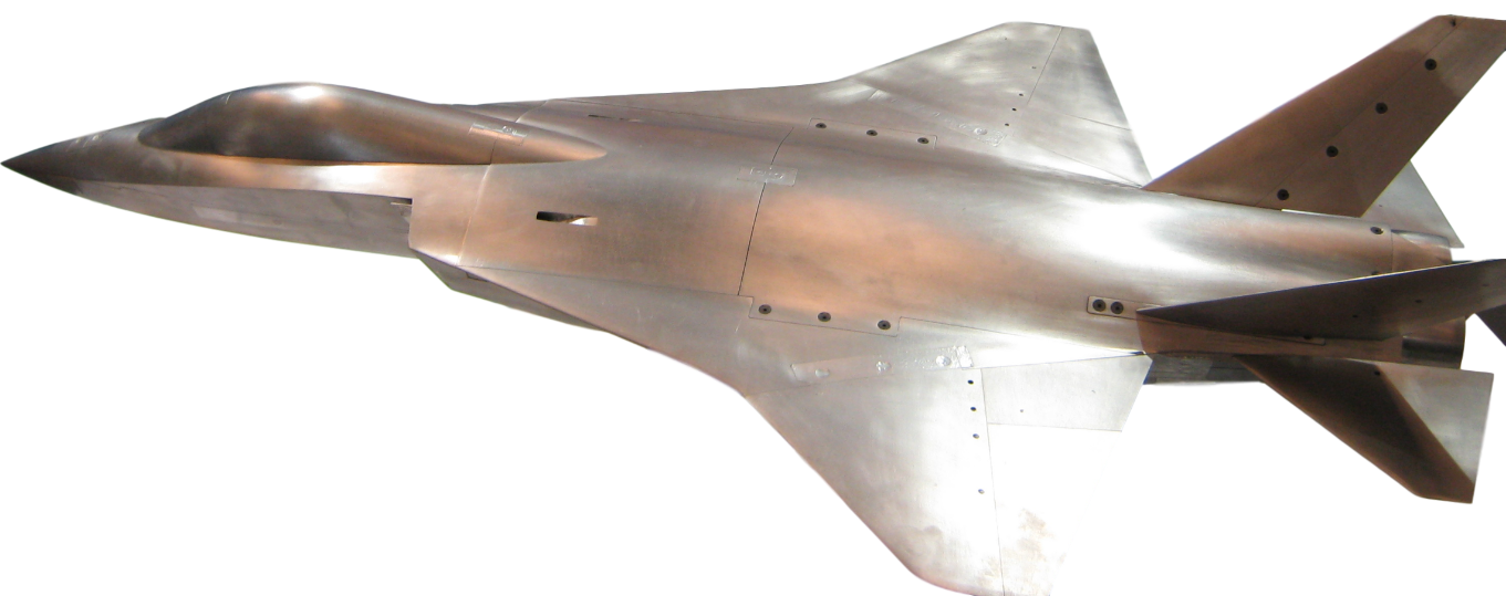 HAL Advanced Medium Combat Aircraft (AMCA) model, background clipped